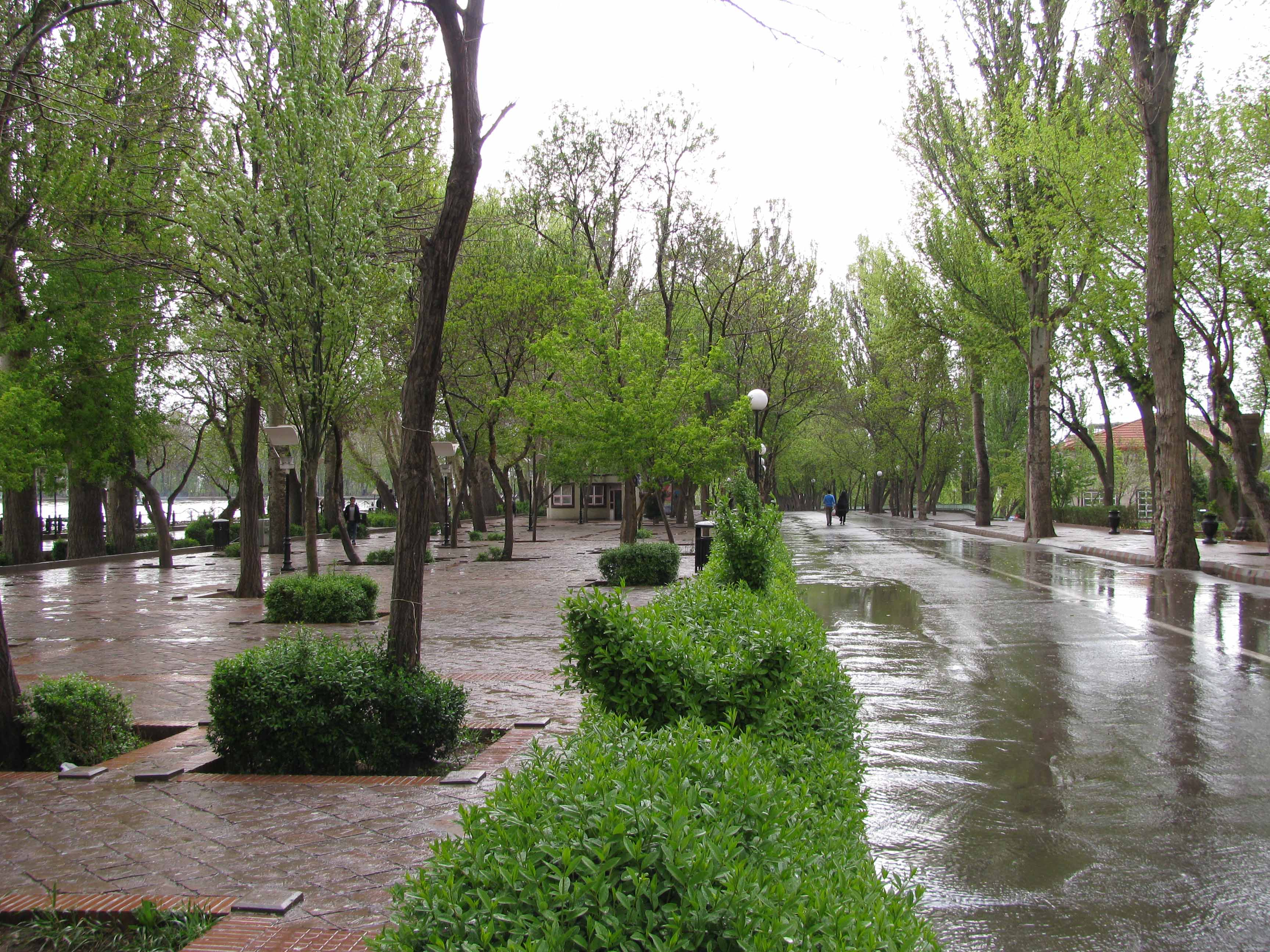 el goli park